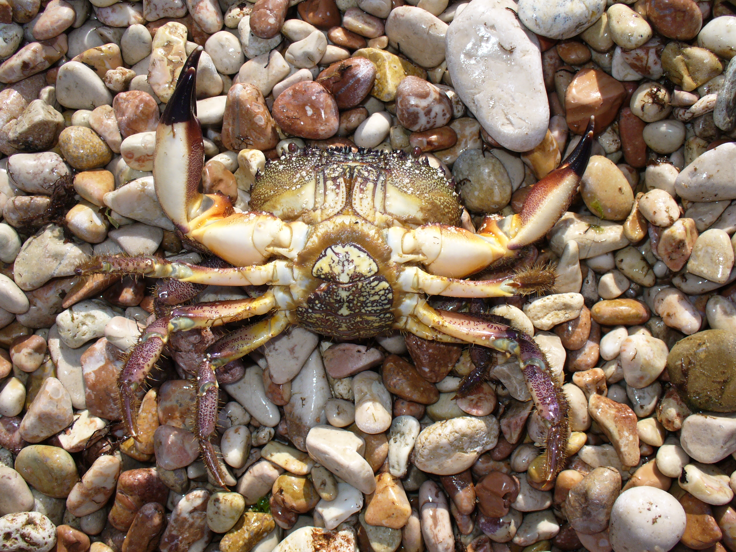 Eriphia verrucosa, sometimes called the warty crab or yellow crab